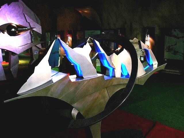 Jungfraujoch Art